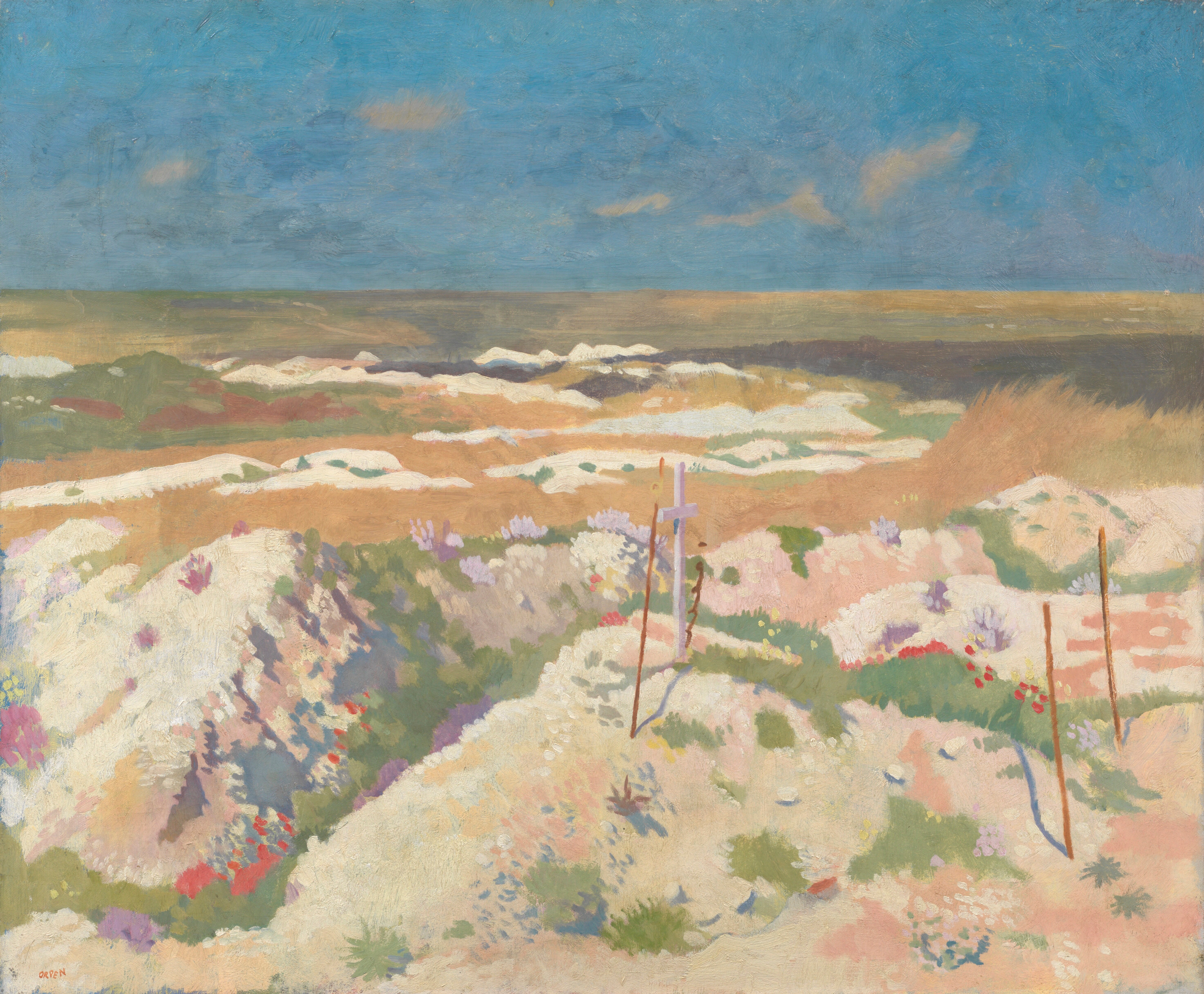 A Grave and a Mine Crater at La Boisselle, August 1917 image: A landscape scarred with mine craters on which weeds, flowers and grasses have begun to grow. A single white cross marking a grave stands in the centre of the composition with three sticks stuck upright in the ground close by.